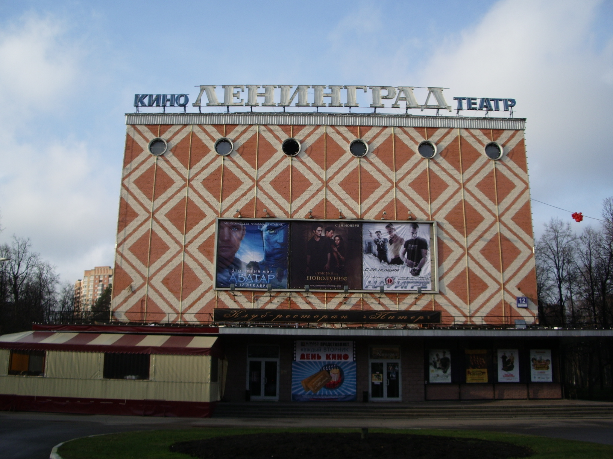 "Leningrad" cinema in Moscow